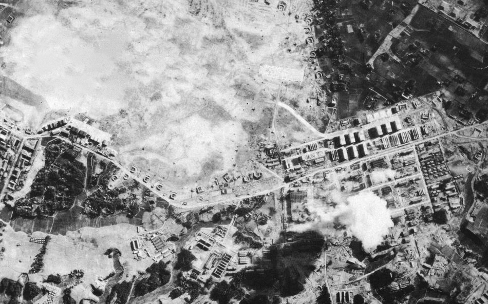 Aerial view of the Tachikawa Aircraft Company, Japan. It was under attack by U.S. Navy carrier aircraft in February 1945.